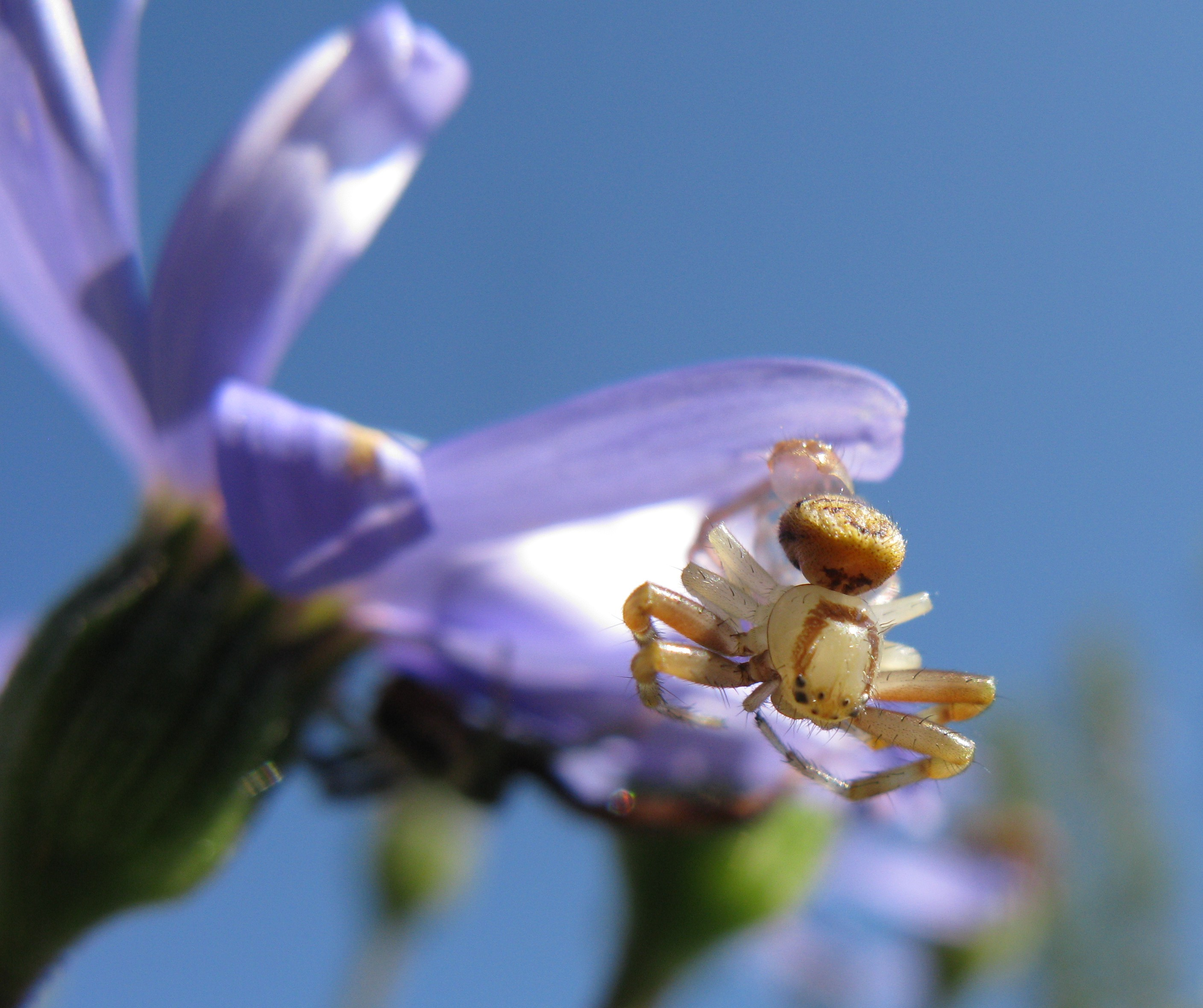 Crab spider female in ecdysis; Species Synema decens, Family Thomisidae. Note legs of male waiting in background. Photo near Somerset West, South Africa.